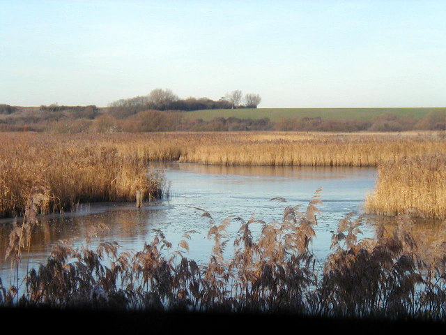 The marshes at Stodmarsh. A good place to see Bittern